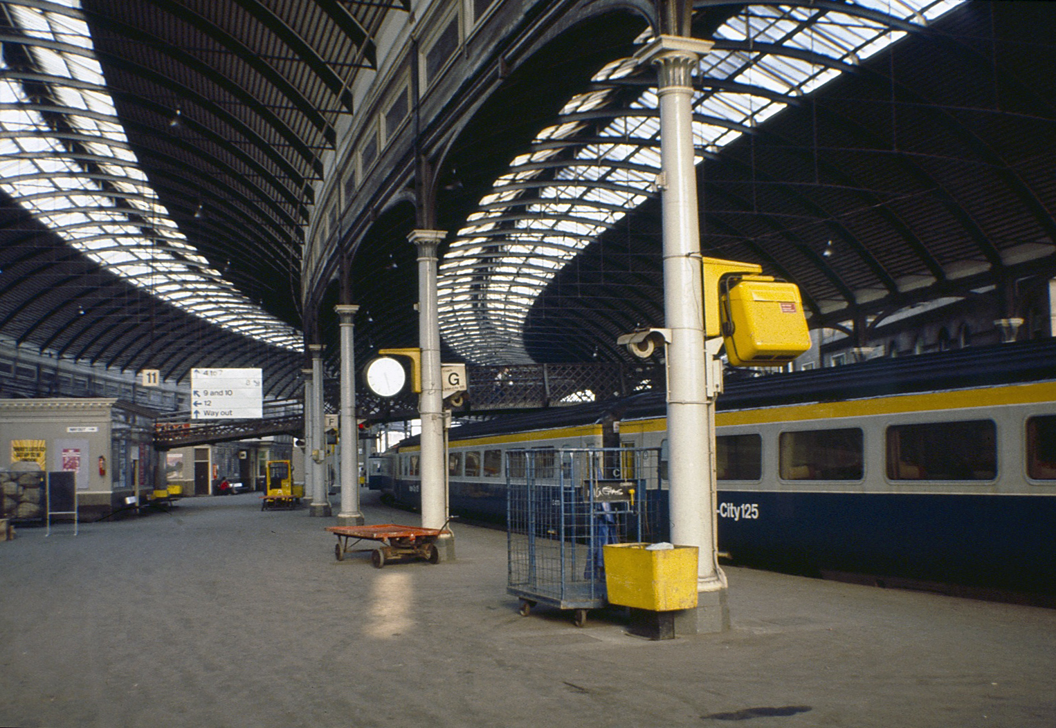 An InterCity service calls at Newcastle in 1983.